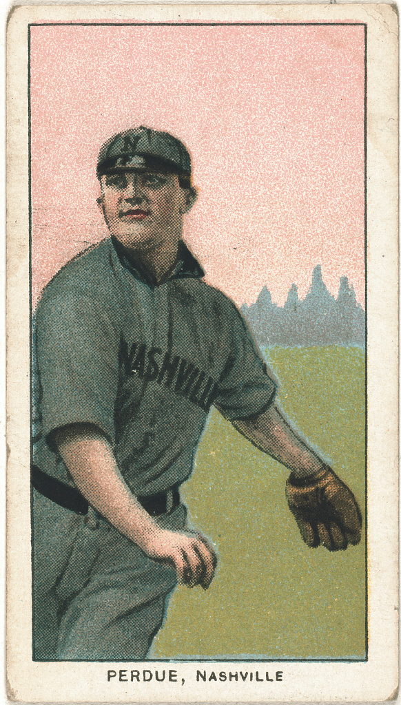 Title: Hub Perdue, Nashville Team, baseball card portrait Abstract/medium: 1 print : relief with halftone, color.